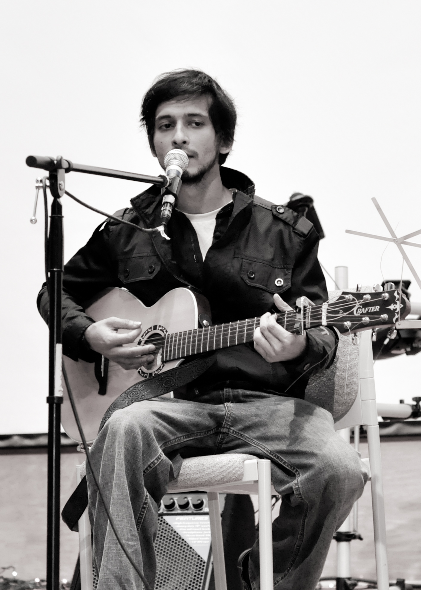 Arnab came to Dallas to perform in Bangladesh Night (organized by BSO) on Oct 19th,2012..As usual, the show was mind blowing